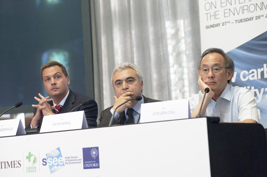 Oliver Inderwildi, Fatih Birol and U.S. Secretary Steven Chu at the Oxford Union